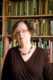 Adele Geras